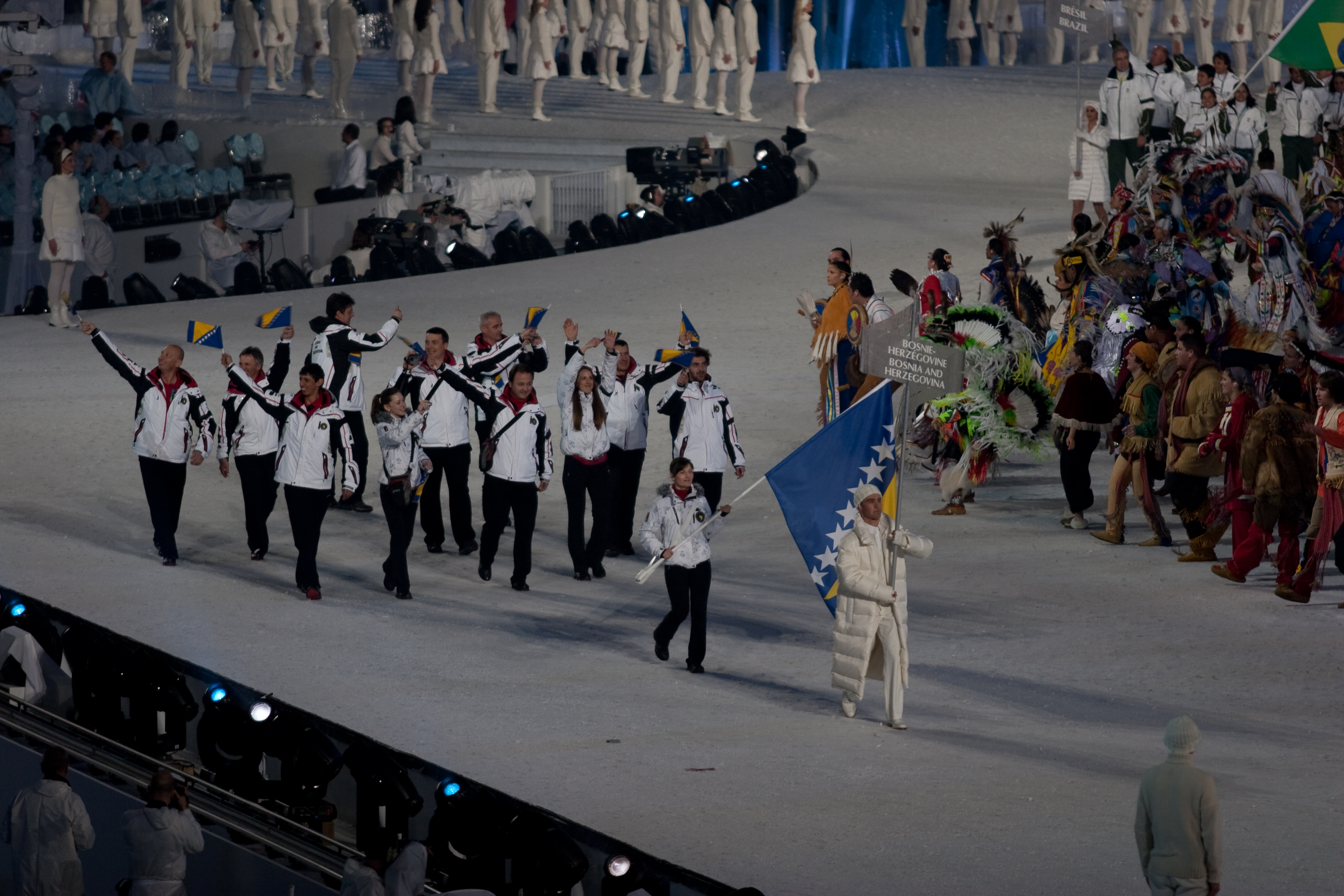 The athletes from Bosnia and Herzegovina entering the stadium at the opening ceremonies of the 2010 Winter Olympics